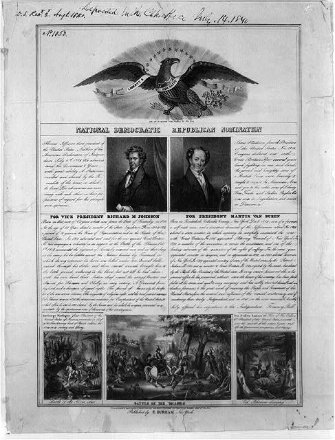 Title: National democratic republican nomination Physical description: 1 print. Notes: This record contains unverified data from PGA shelflist card.; Associated name on shelflist card: Endicott